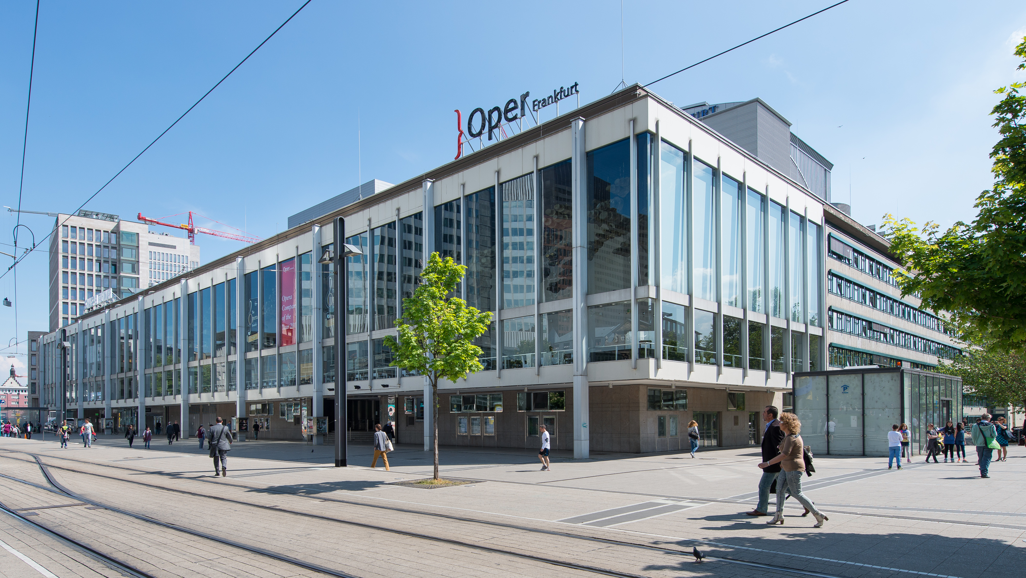 Frankfurt am Main, City Opera and Theatre at Willy-Brandt-Platz